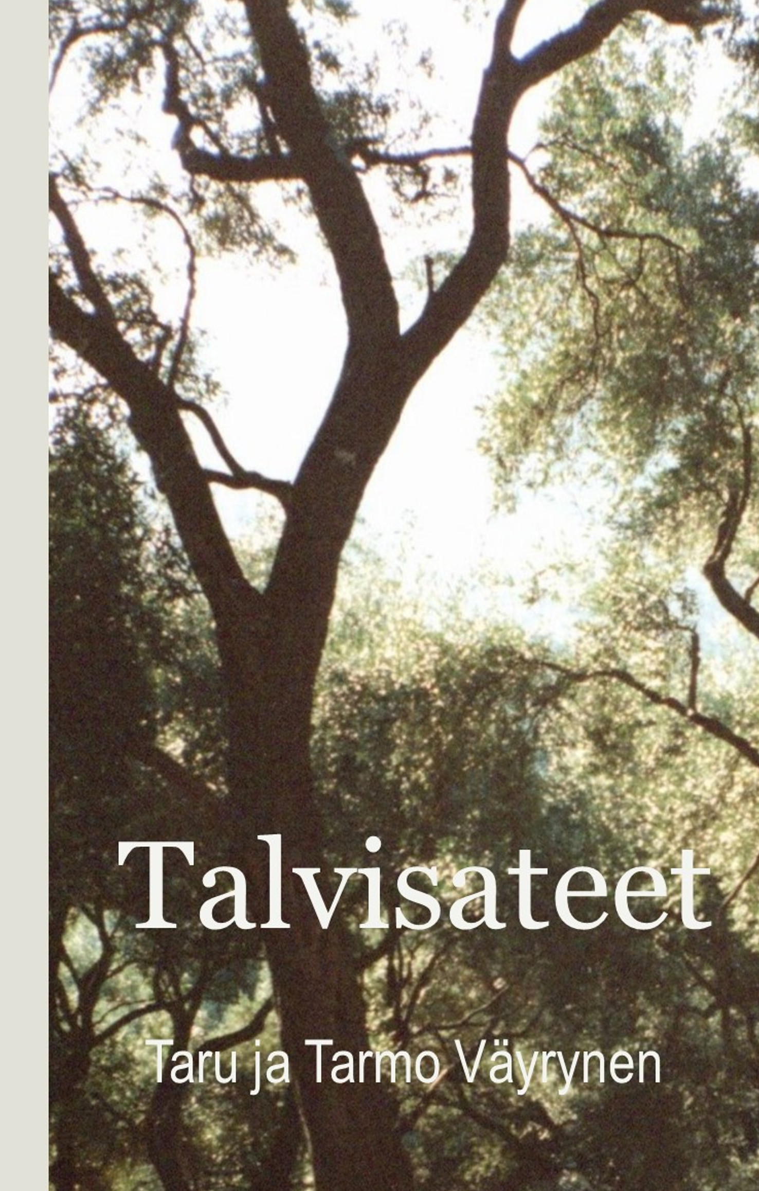 Talvisateet